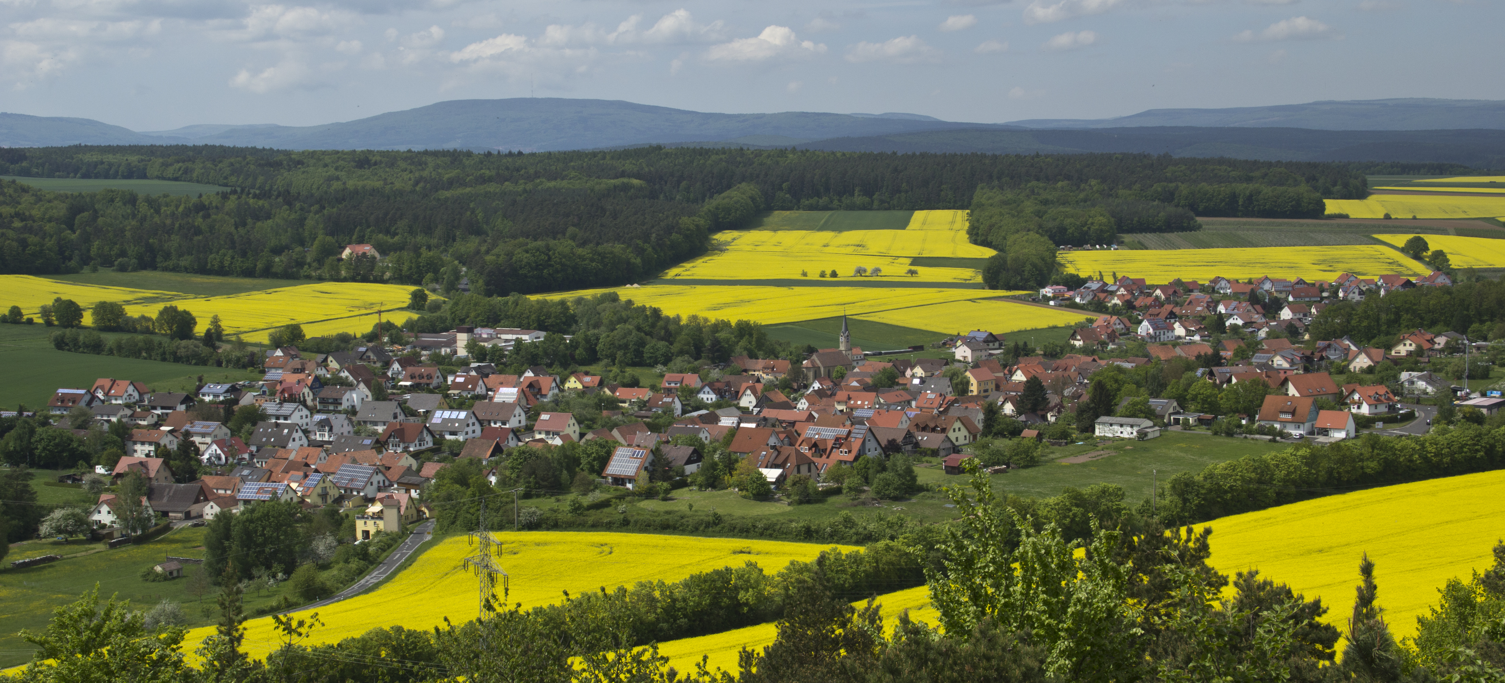 Reichenbach (Münnerstadt) as viewed from the Michelsberg. The Kreuzberg can be seen in the back.